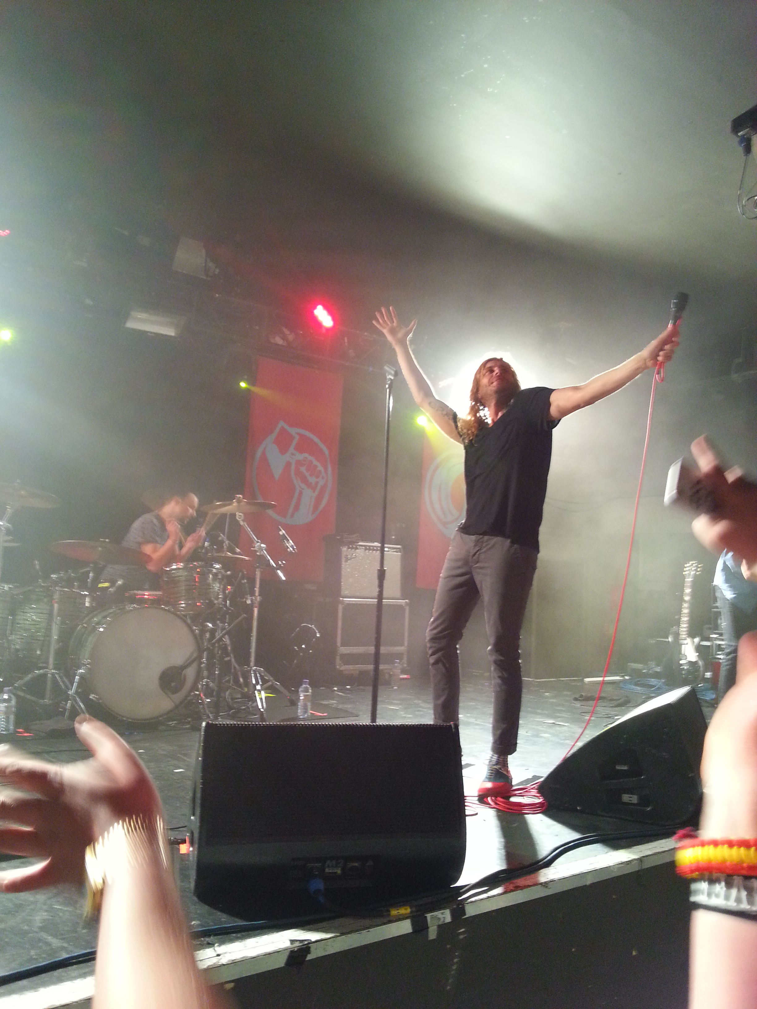 Aaron Bruno (foreground) performing at The Library Institute Birmingham 28/05/2014